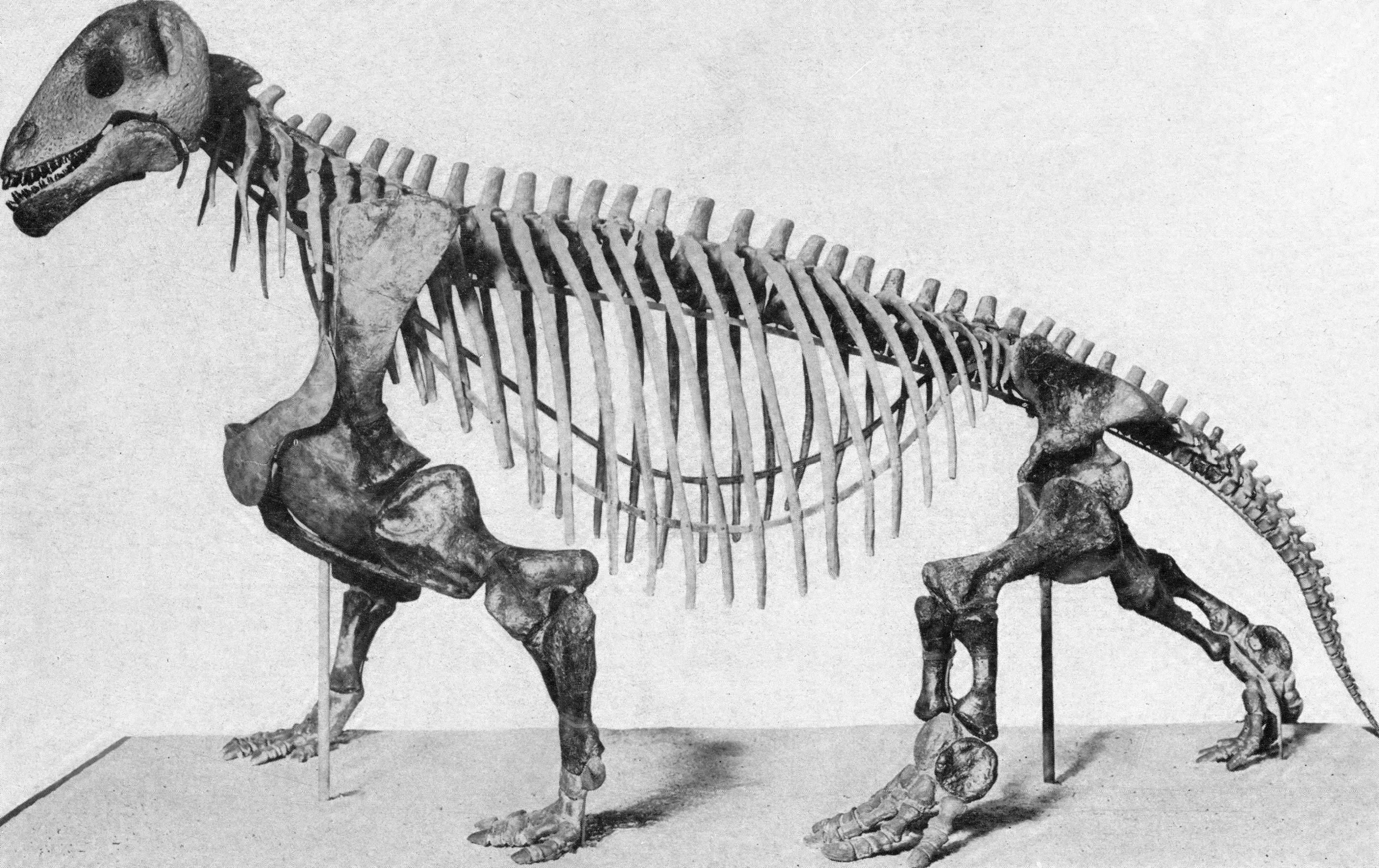 Moschops capensis skeleton